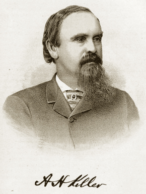 Arthur Henley Keller (1836—1896)